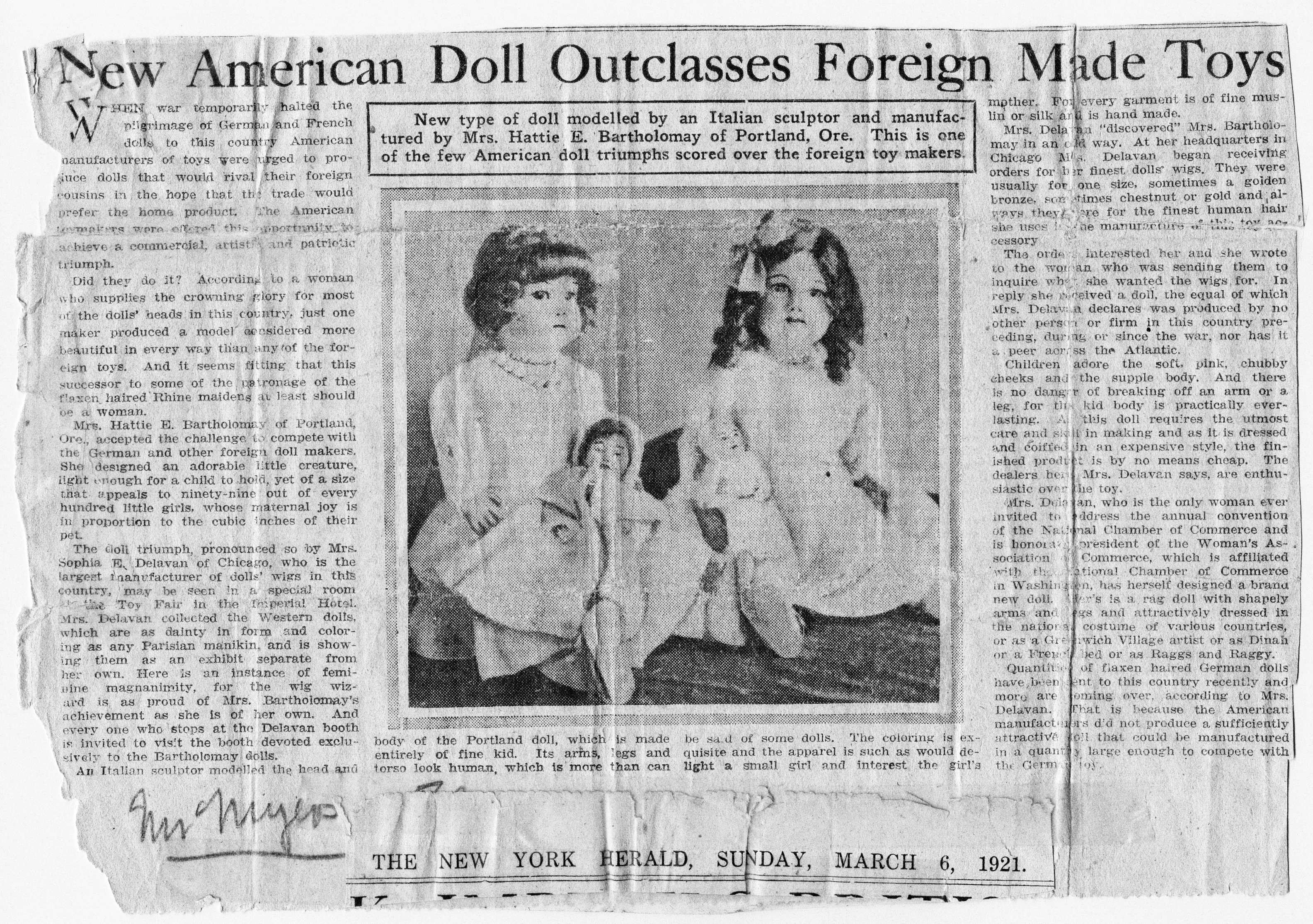 An article from The New York Herald, Sunday, March 6, 1921, titled, "New American Doll Outclasses Foreign Made Toys."